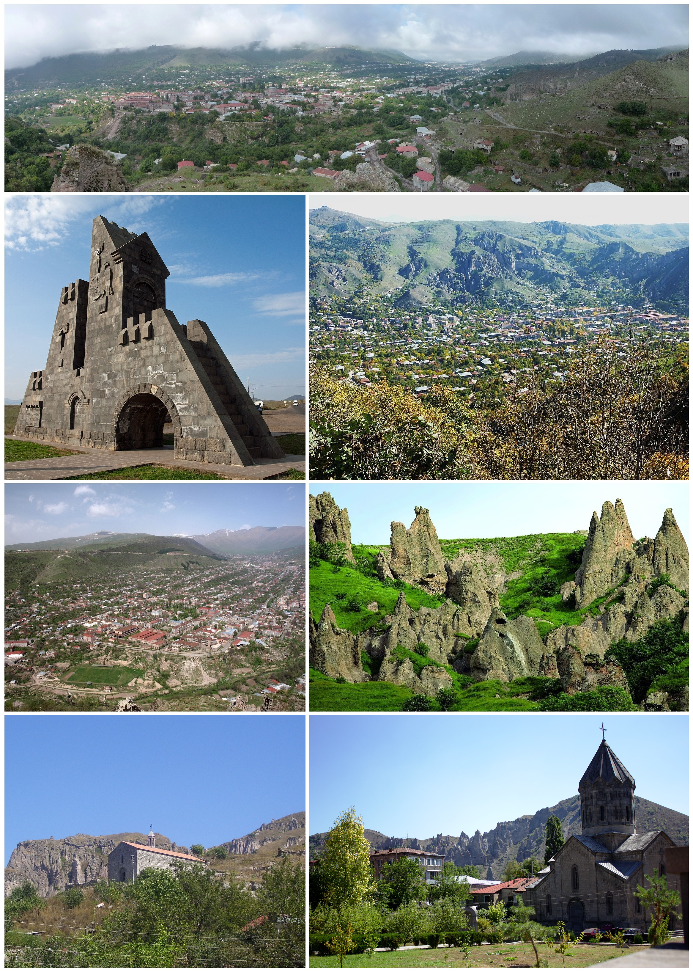 Goris, Armenia.